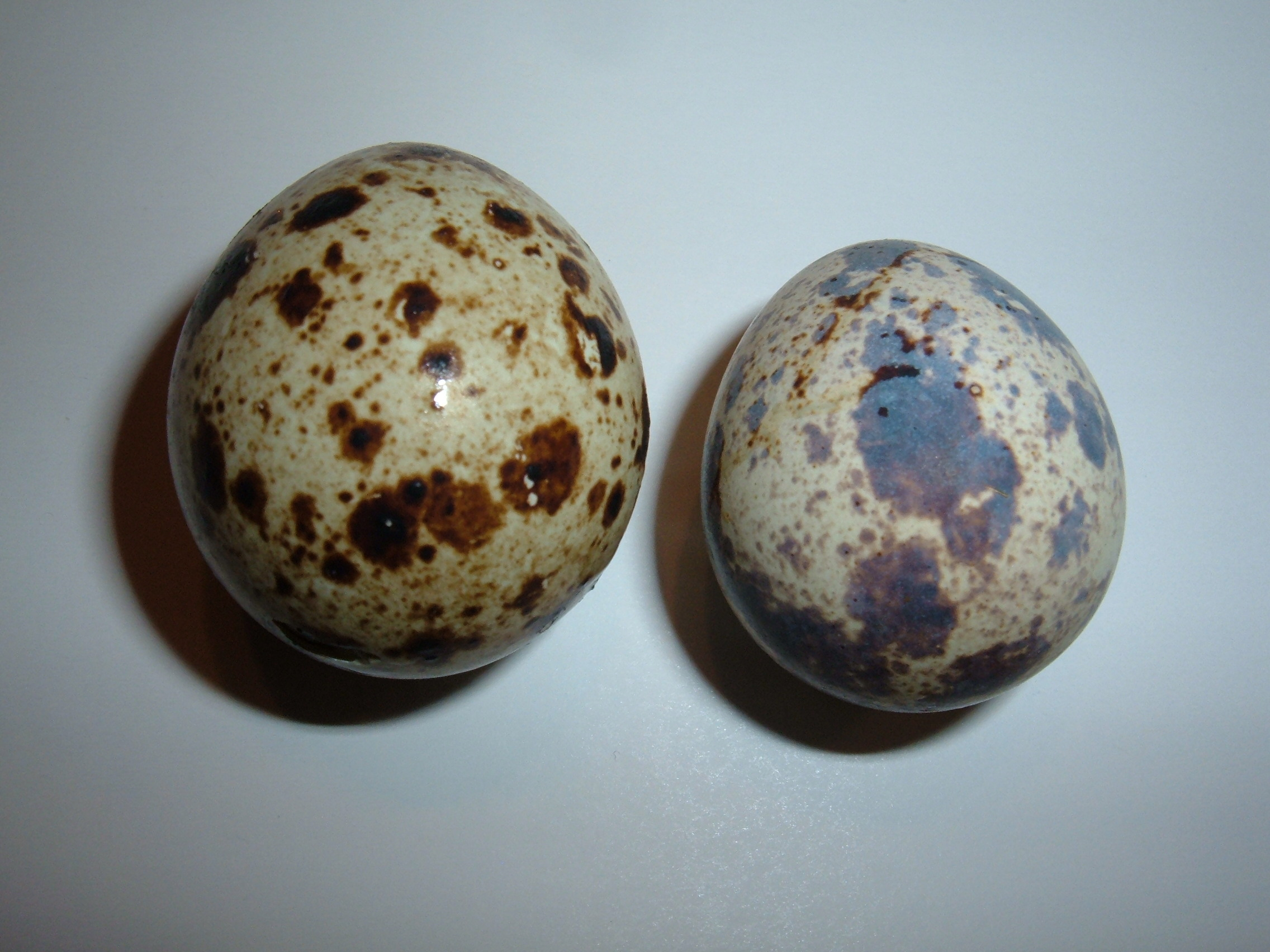 A pair of domesticated Japanese quail eggs.